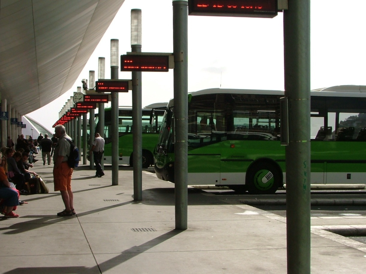 Long-distance TITSA buses and passengers on the top plane of Santa Cruz station complex, in Tenerife, Canary Islands, in December, 2008.